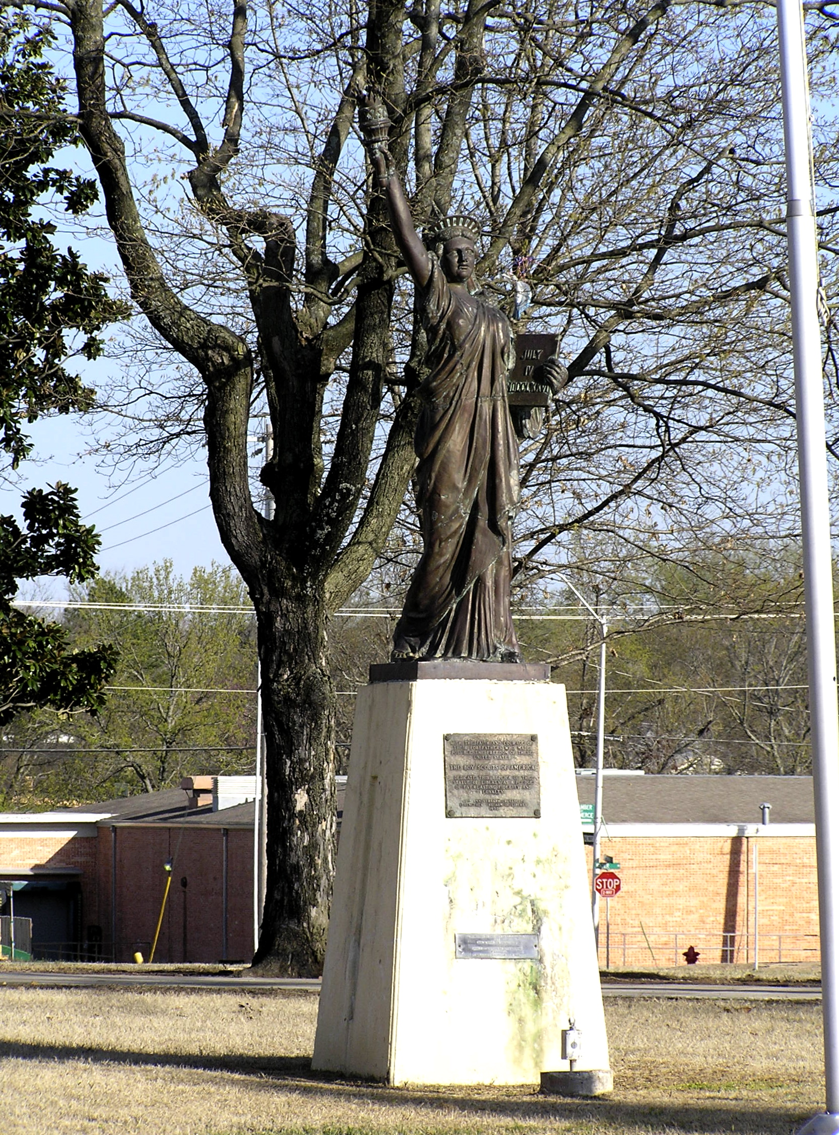 Lady Liberty, part of Strengthen the Arm of Liberty at the Cherokee National Capitol, Tahlequah, Oklahoma